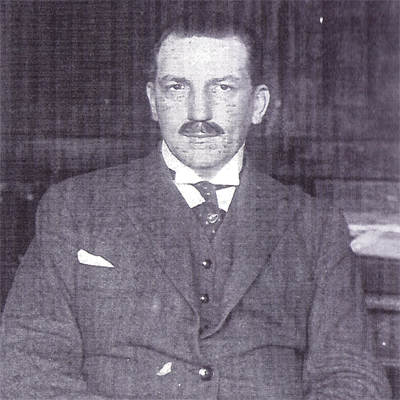 Portrait of Héctor Rivadavia Gómez, Uruguayan executive and first president of Conmebol.